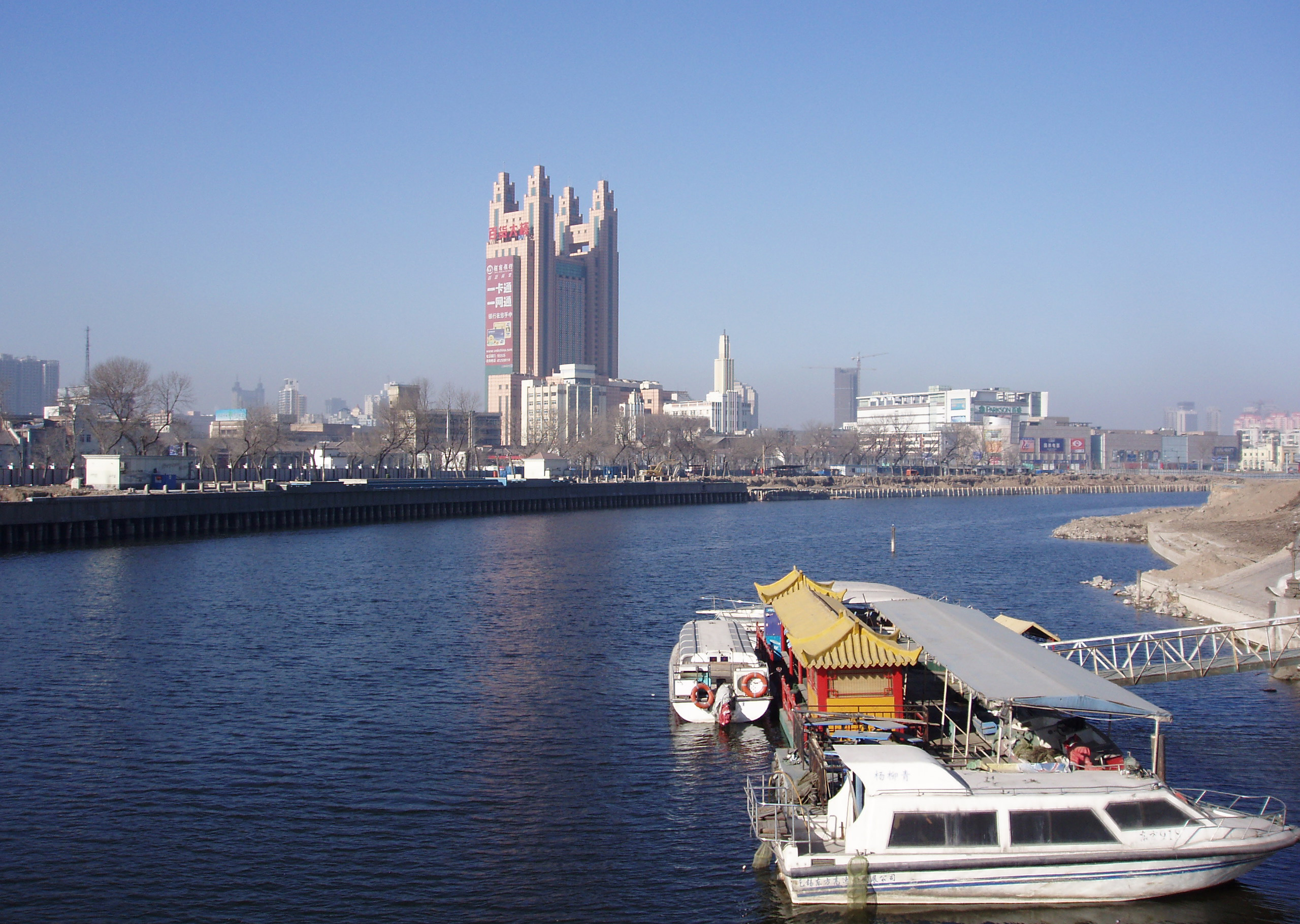 Tianjin department store, China